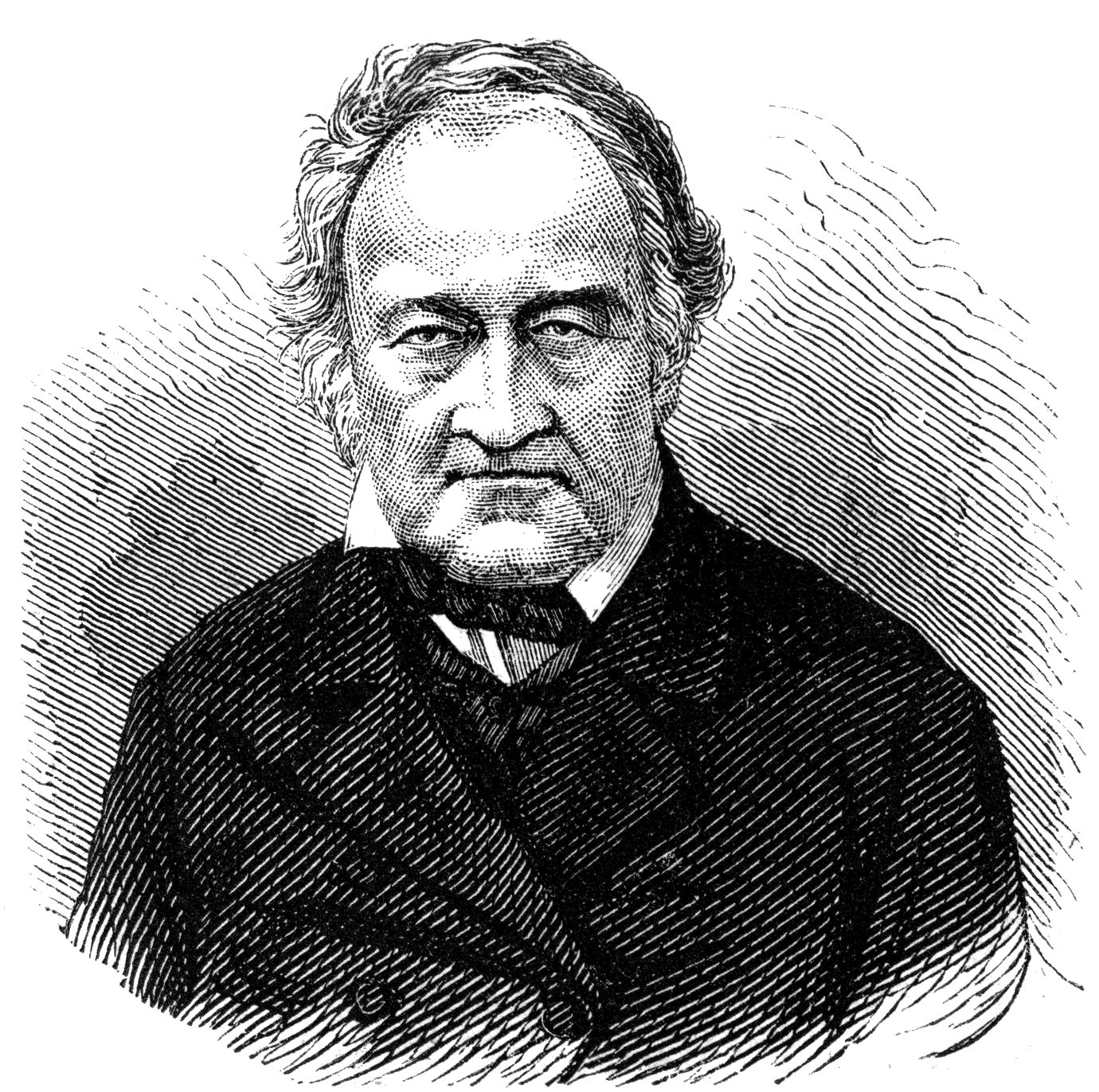 Ami Boué (austrian geologist) 1794 - 1881